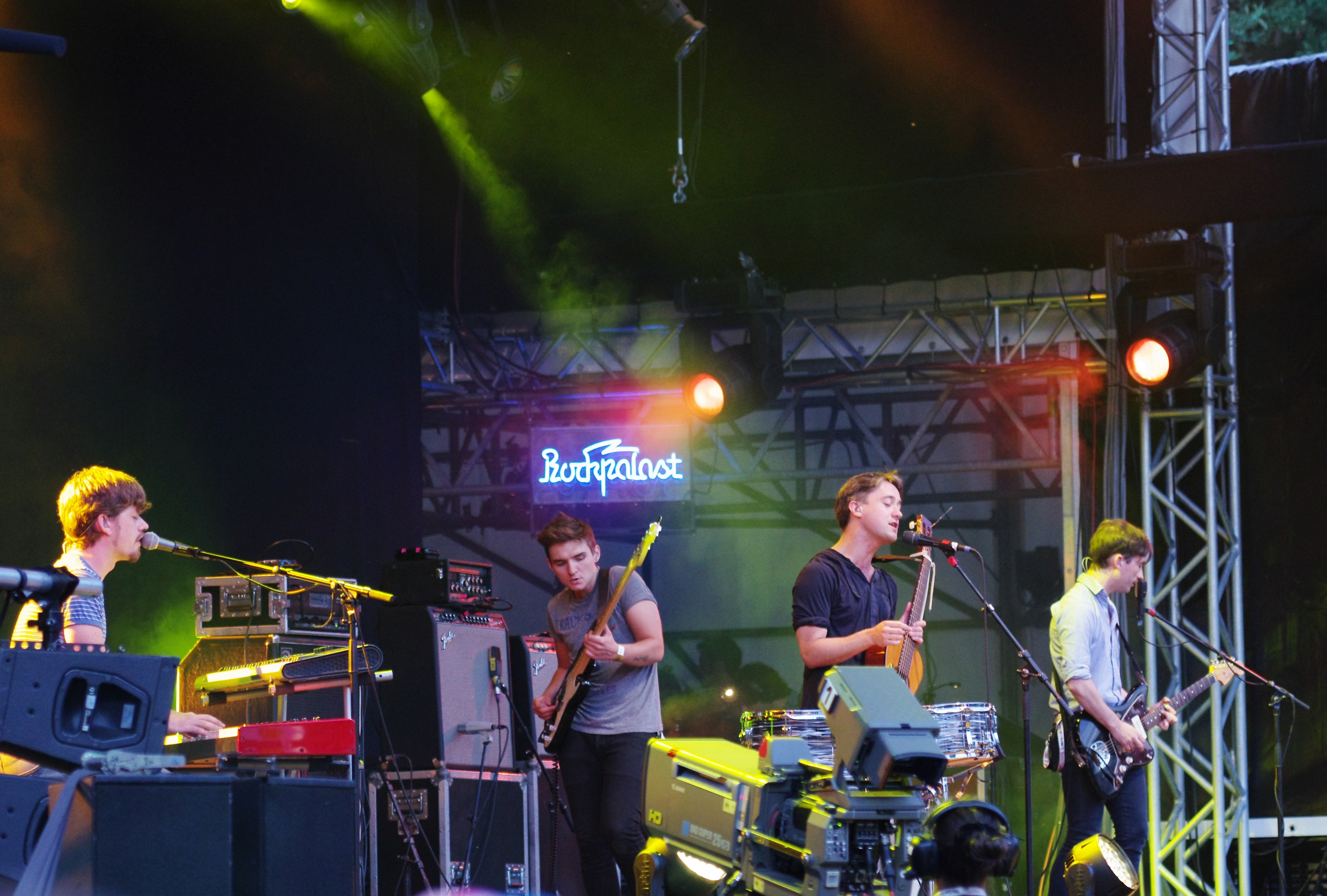 Indie folk rock band Villagers from Ireland at Haldern Pop Festival 2013. Members: Conor J. O'Brien - vocals, acoustic guitar; Tommy McLaughlin - electric guitar, mandolin, backing vocals; Daniel Snow - bass, guitar: Cormac Curran - keyboards, backing vocals; James Byrne - drums